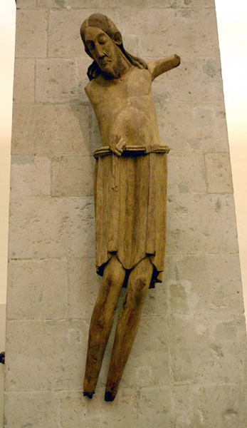 Torso of the Saint Georg Crucifix, Cologne, Germany, Museum Schnütgen